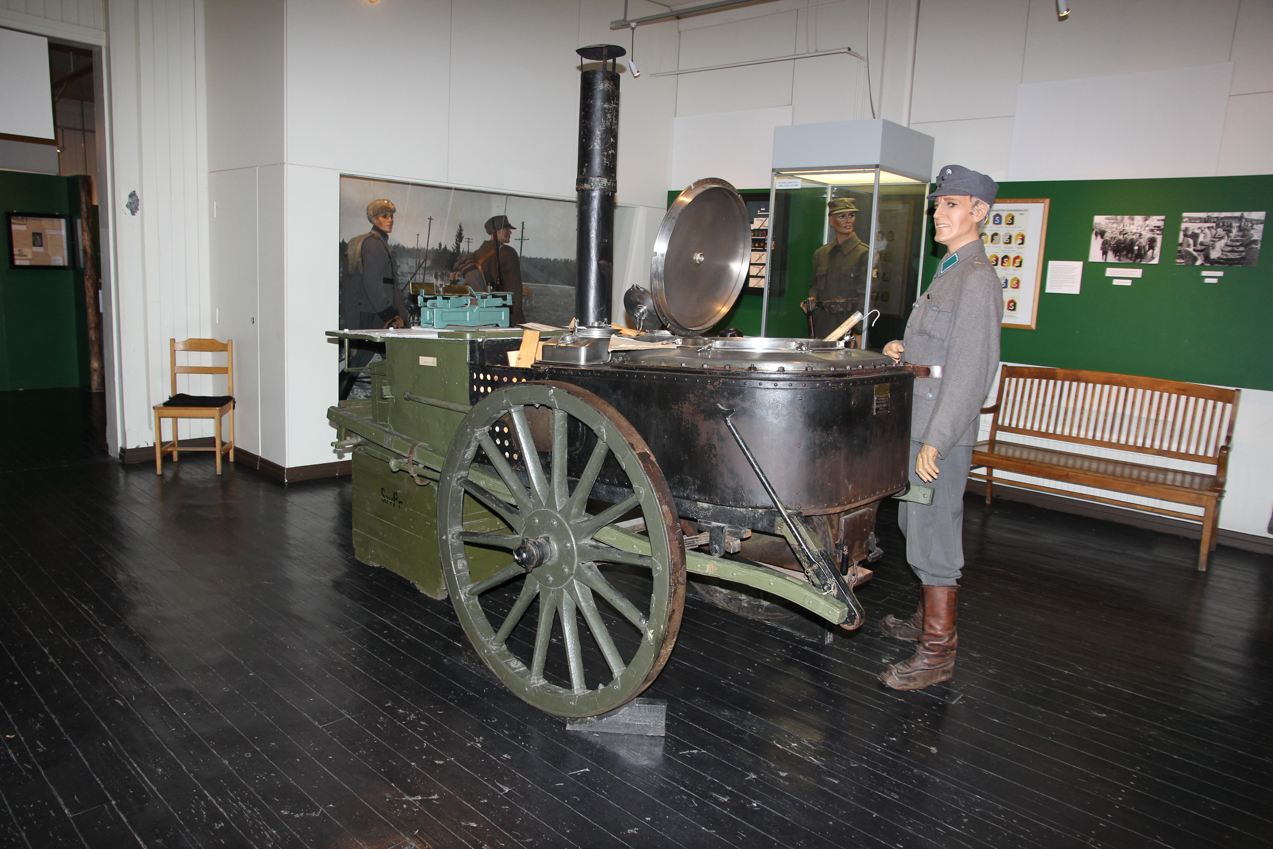 Finnish field kitchen, probably m/29. Photographed in Mikkeli Infantry museum.